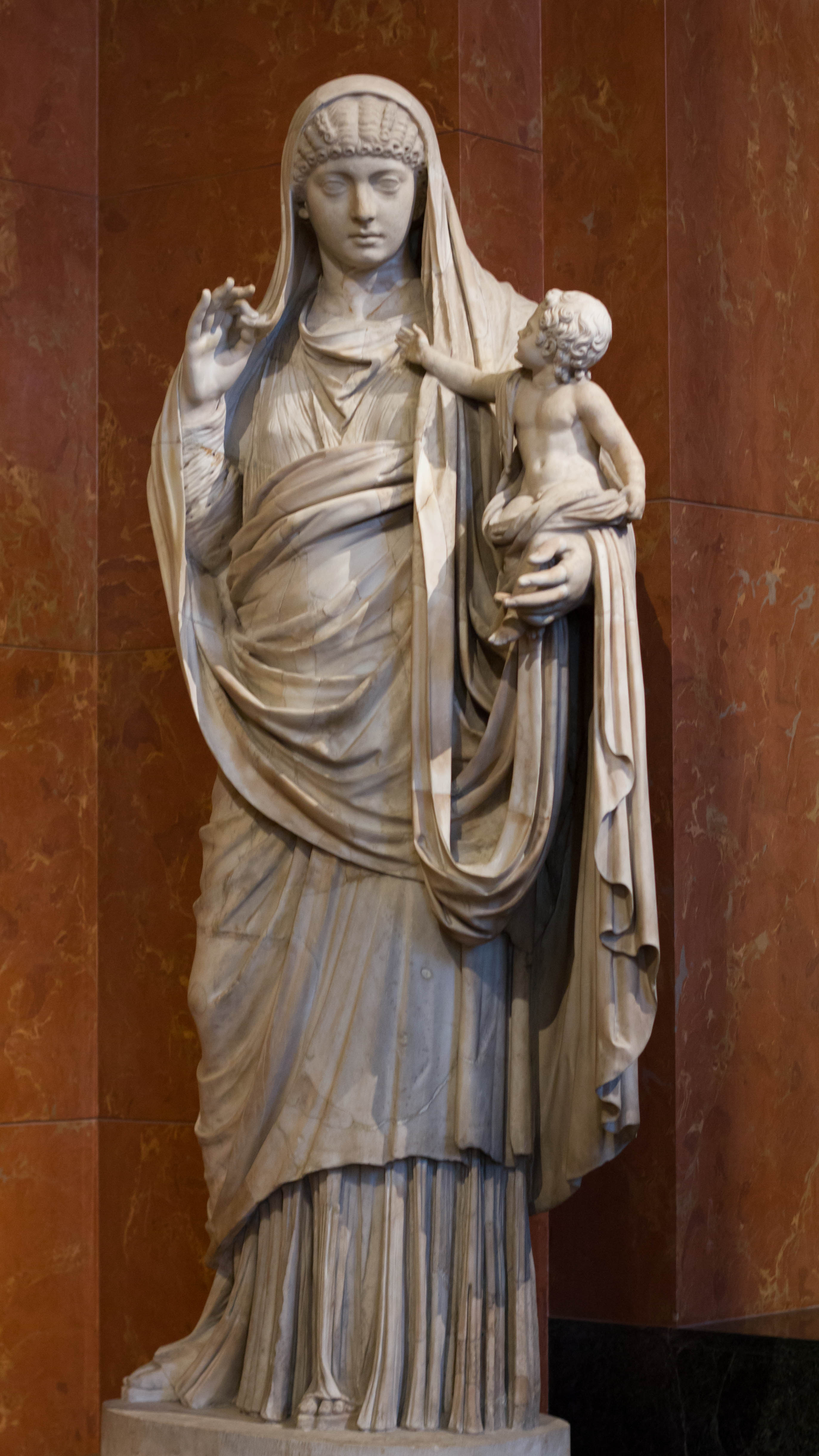 Messalina holding Britannicus, Marble, ca. 45 AD. Inspired by Cephisodotos' renowned sculpture, Eirene bearing the child Ploutos.